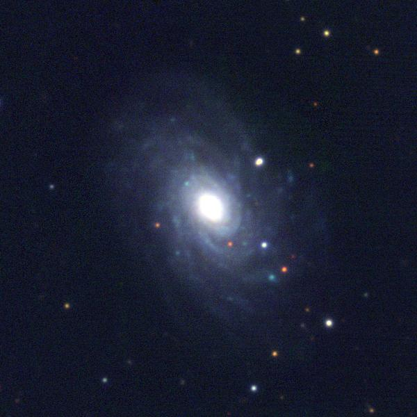 PanSTARRS image of NGC 668.